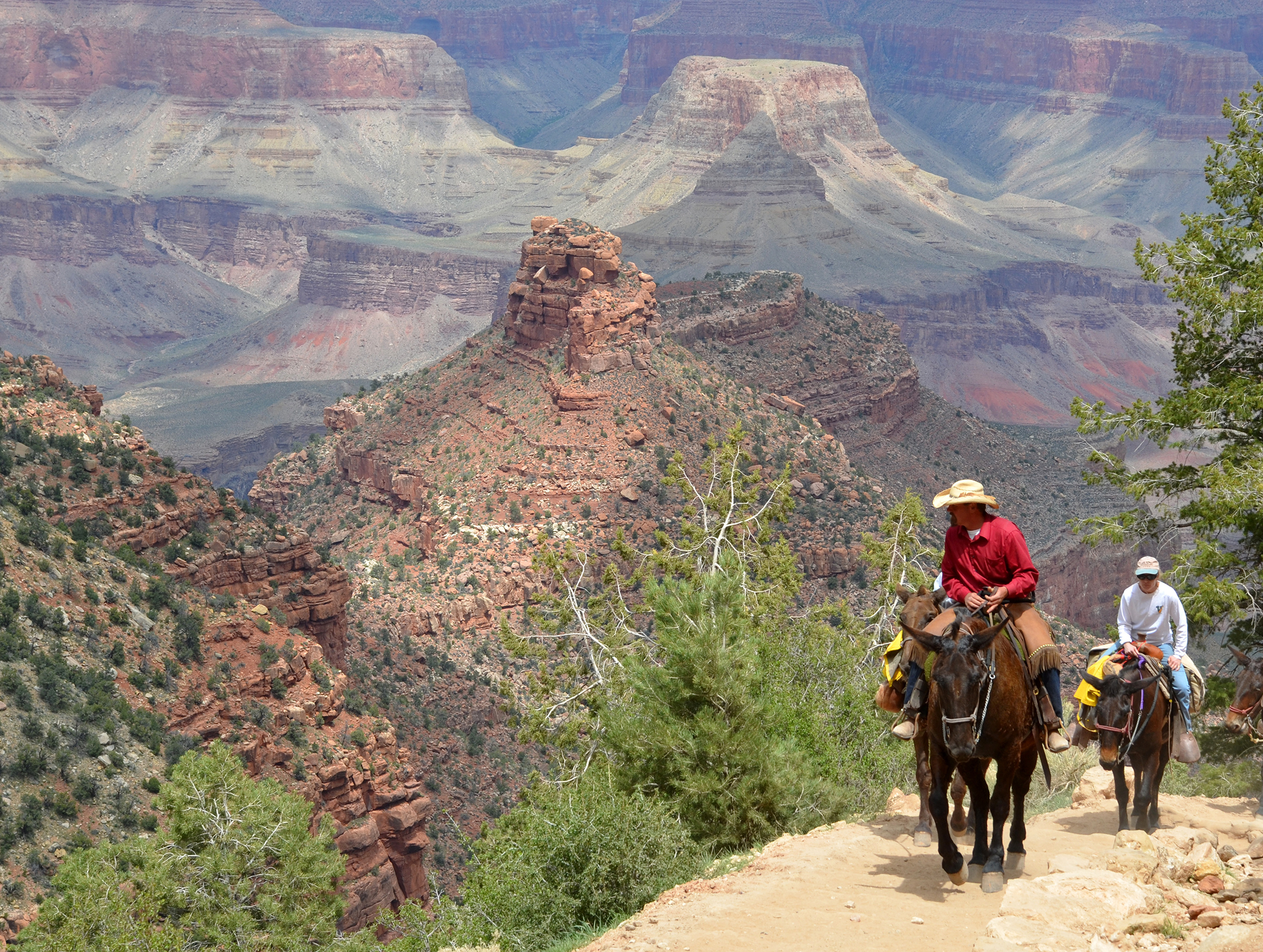 Guide leading mule riders up a steep portion of the Bright Angel Trail known as Heartbreak Hill. The Battleship formation is in the background, and Cheops Pyramid beyond that. (on the other side of the Colorado River) NPS photo by Michael Quinn. Mule trips into the canyon - as well as rides through the park's woodlands to scenic canyon overlooks - are offered on both the the North and South Rims of the park. Learn more here